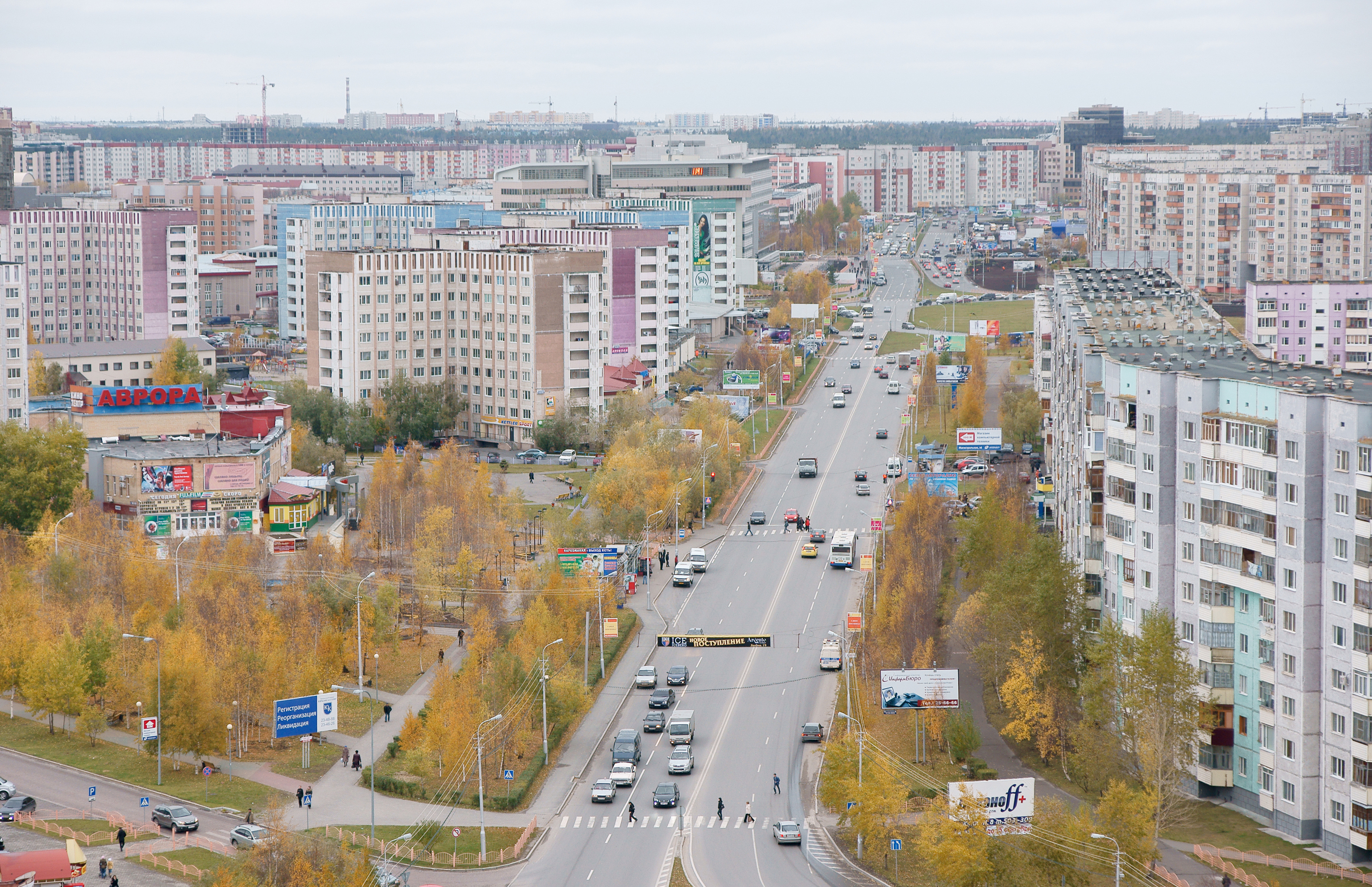 Lenin st., Surgut, Russia.